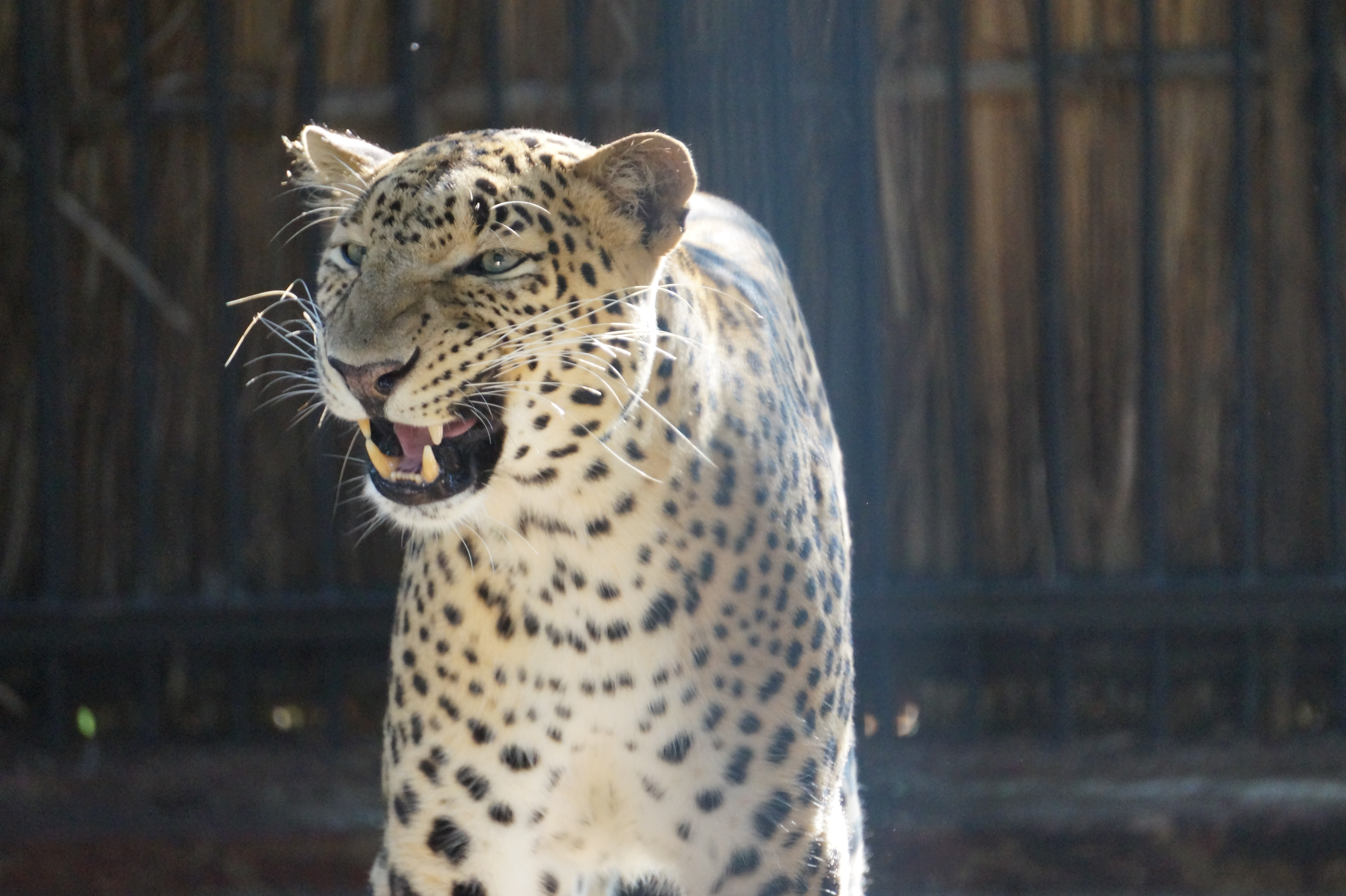 Anger is the Beauty of this Leopard